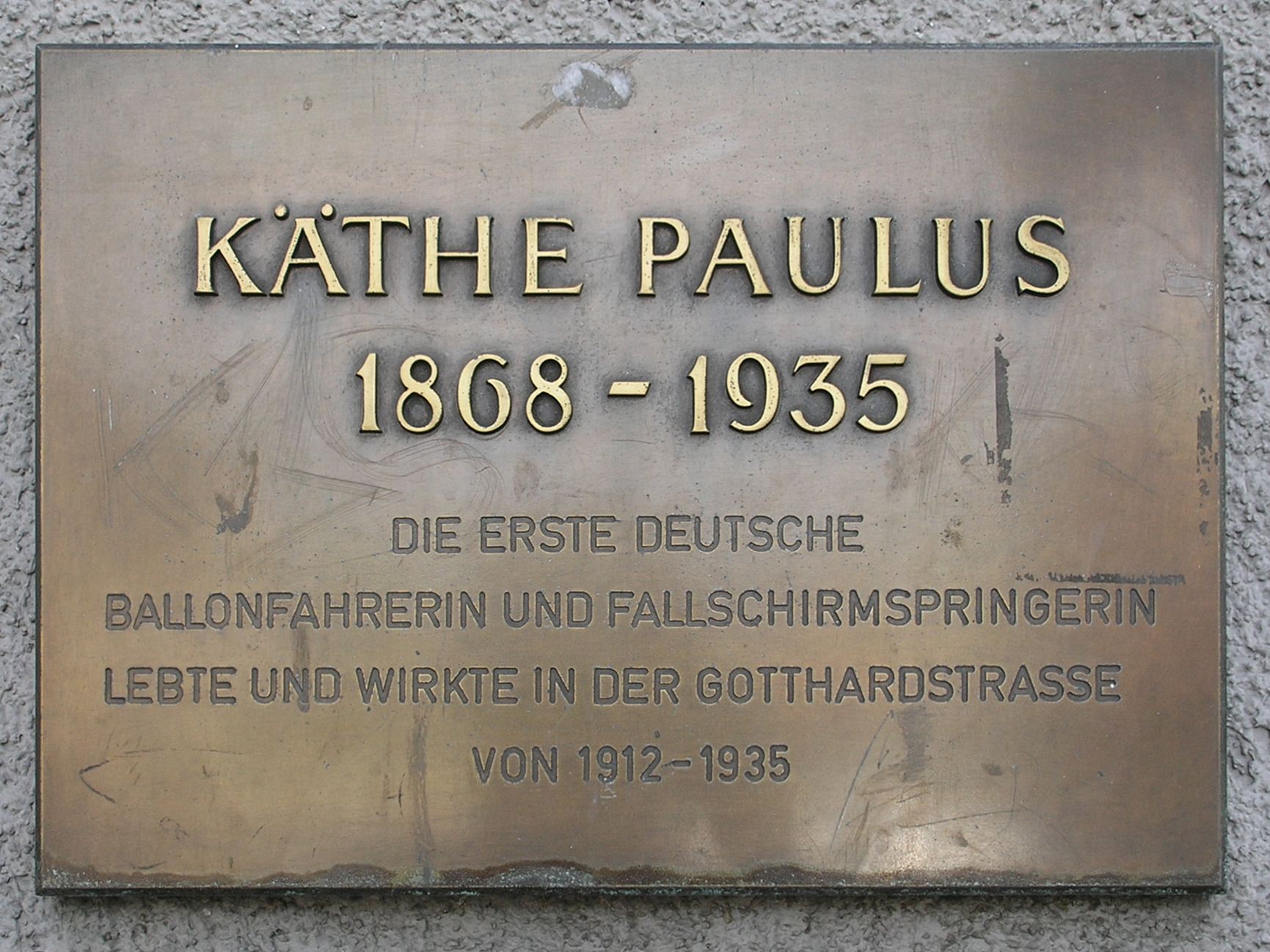 Memorial plaque, Käthe Paulus, Gotthardstraße 105, Berlin-Reinickendorf, Germany Koordinate:52°33′46″N 13°19′53″E / 52.56278°N 13.33139°E